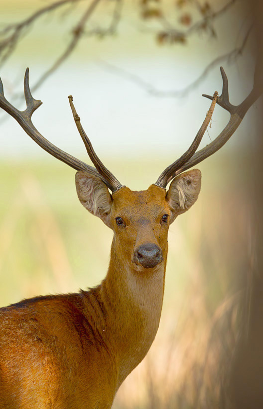 A male hard ground barasingha in Kanha National park, India